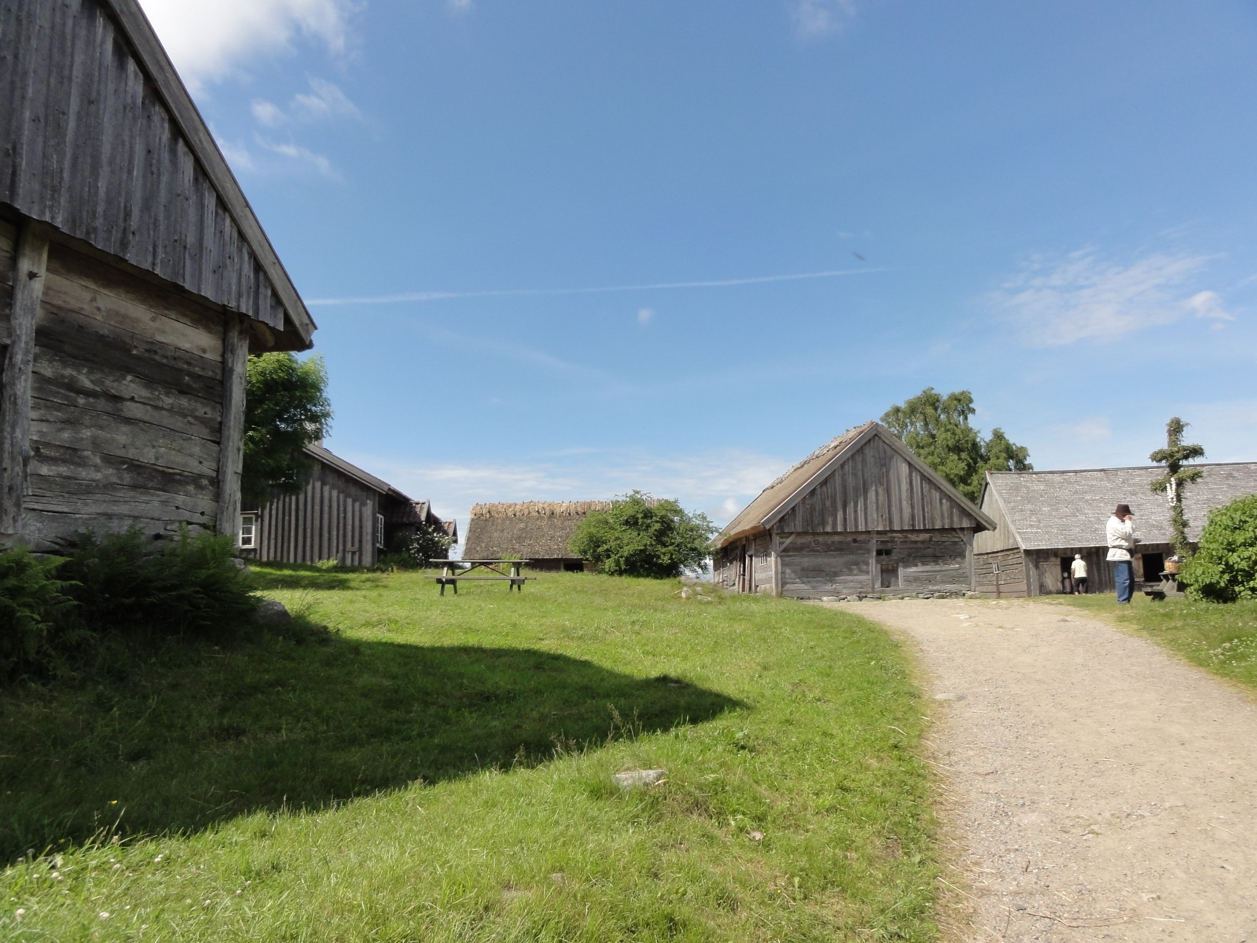 Äskhults by